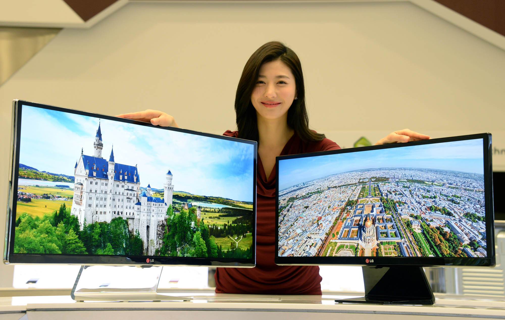 Model with TV